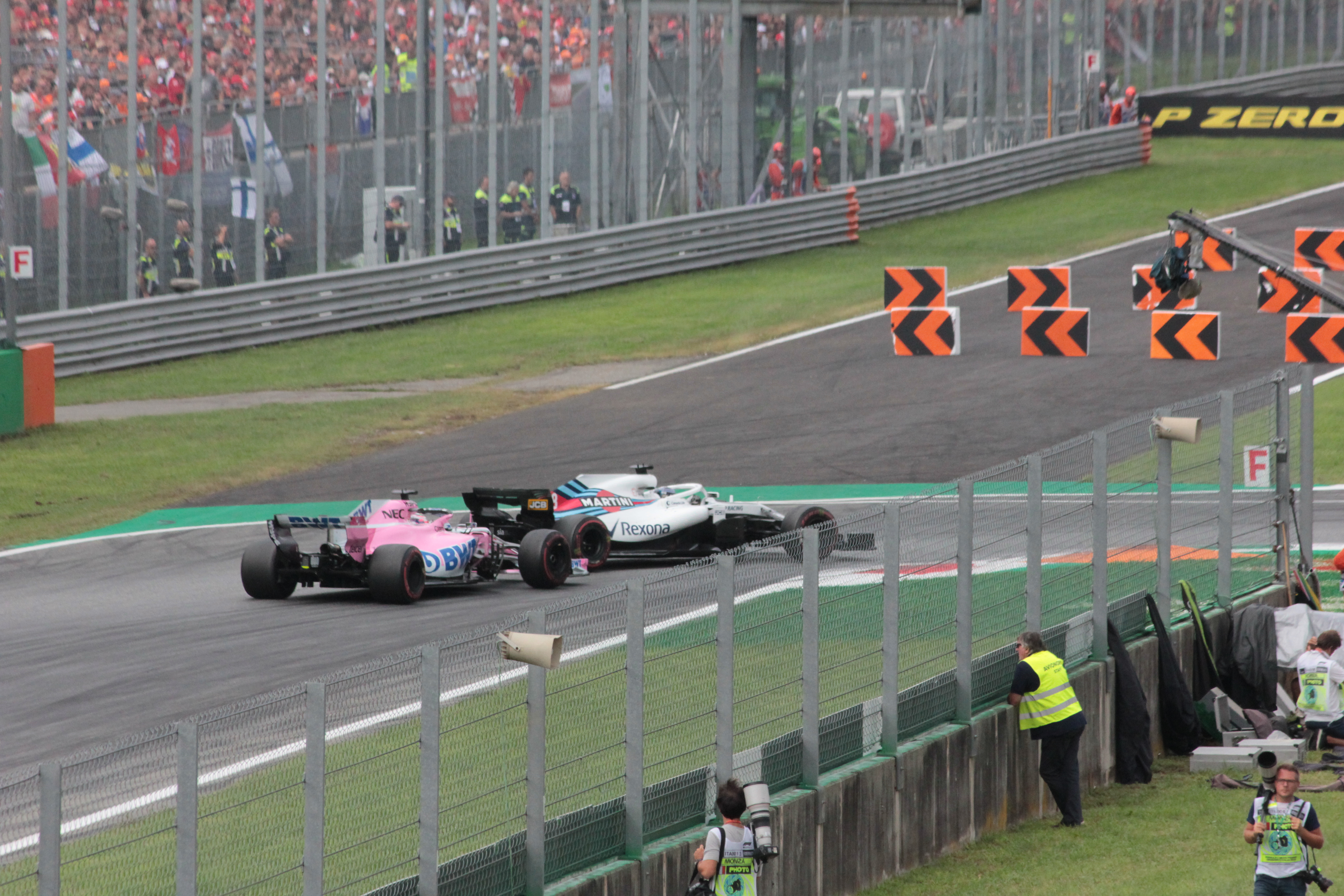 Lance Stroll and Sergio Pérez fighting for 8th place during 2018 Italian Grand Prix.